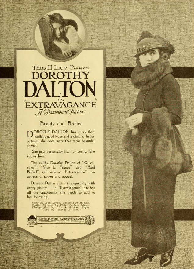 Advertisement in Moving Picture World, March 1919 for the film Extravagance (1919).